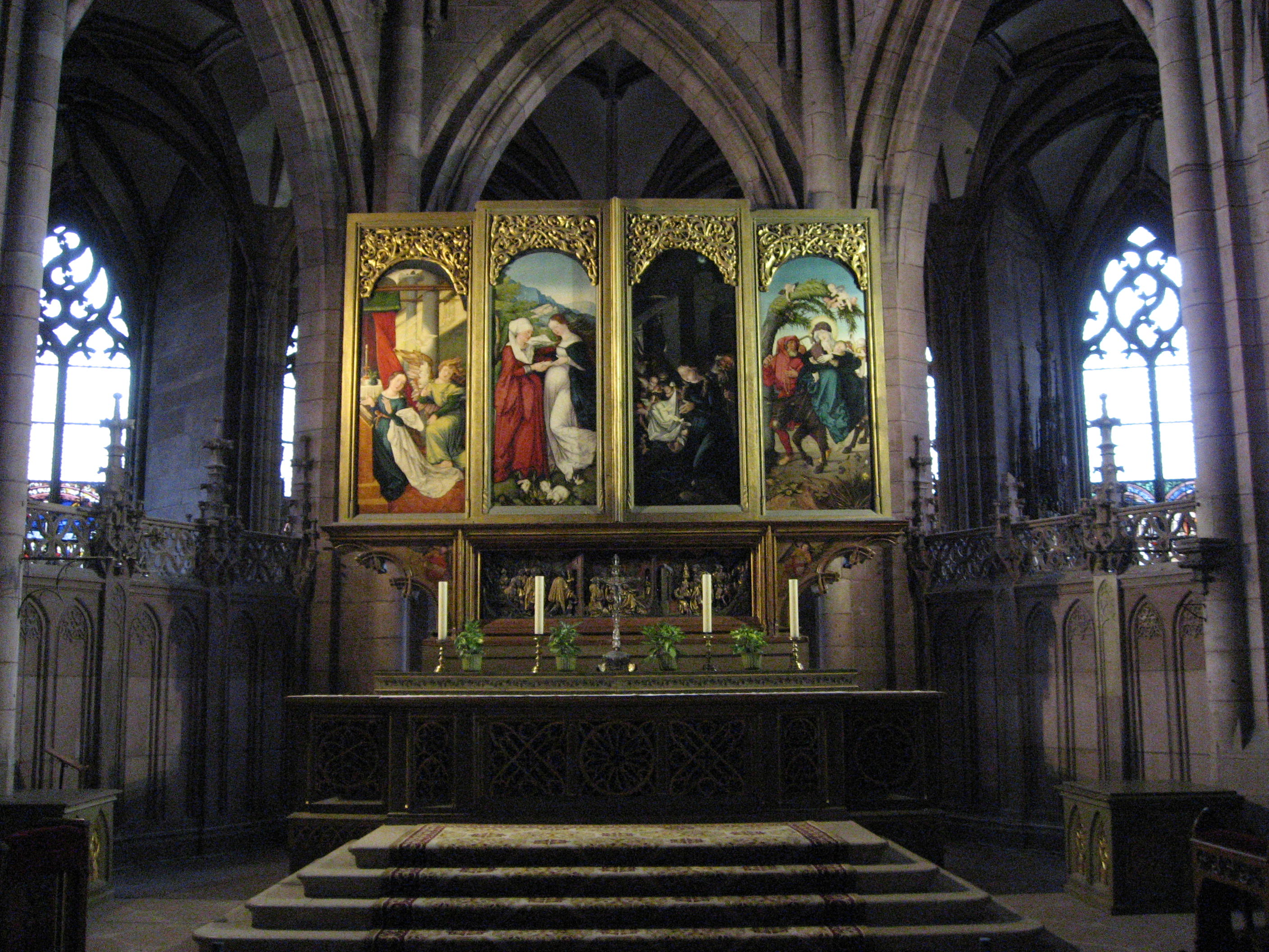 High altar of Freiburg Minster, created by Hans Baldung Grien from Straßburg, between 1512 and 1516.